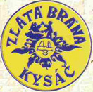 A logo of the Festival of children's dances, songs, music and folklore of Vojvodinian Slovaks "Zlatá brána". Srpski (latinica): Logo Festivala dečjih igara, pesama, muzike i folklora vojvođanskih Slovaka "Zlatna brana".